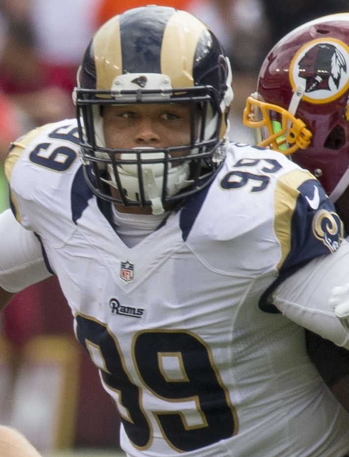 Aaron Donald, a player on the National Football League.